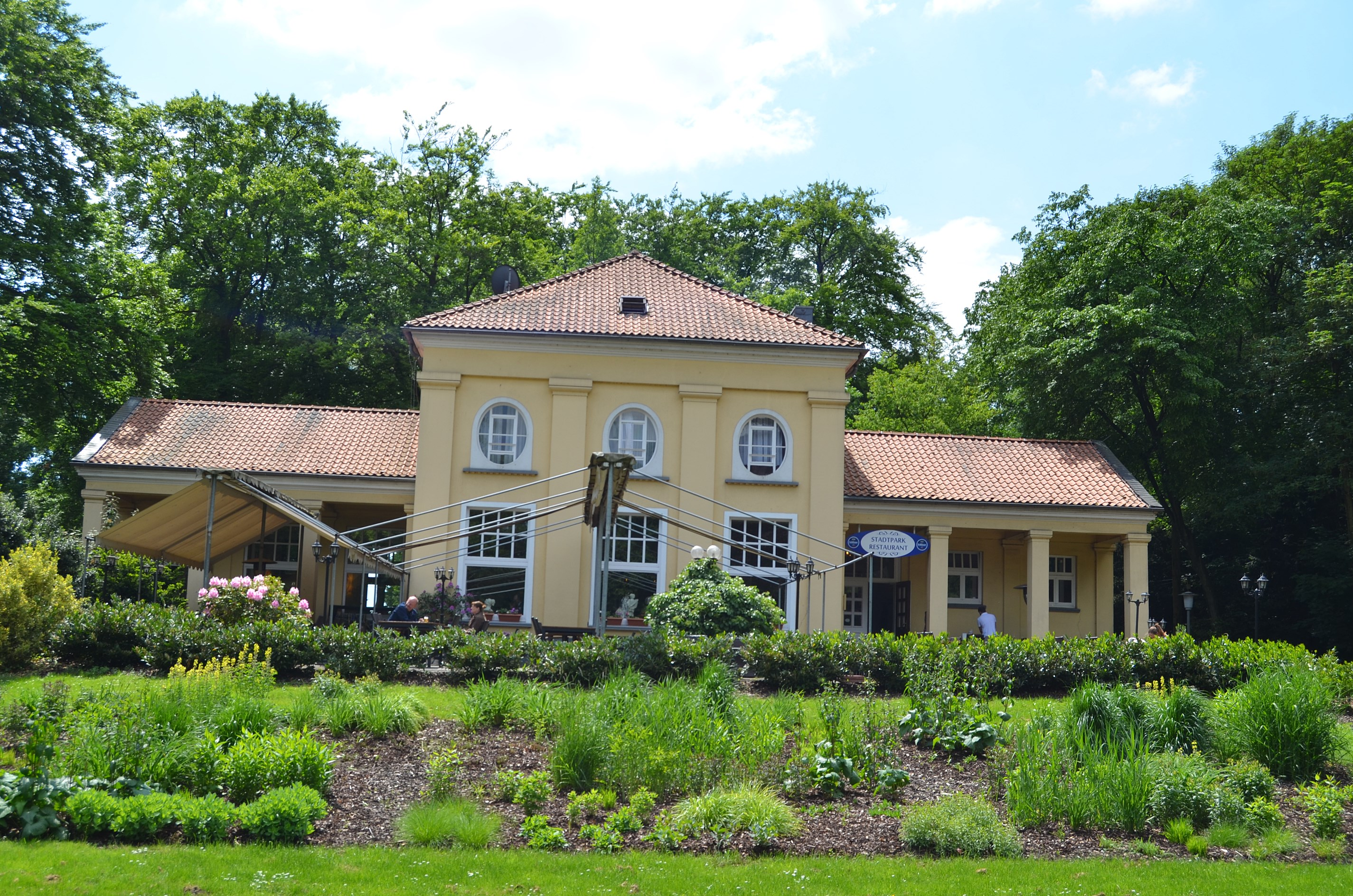 Krefeld (North Rhine-Westphalia, Germany) – district Uerdingen – urban park – restaurant This image shows a heritage building in Germany, located in the North Rhine-Westphalian city Krefeld (no. 971). This photograph was taken with a Nikon D7000